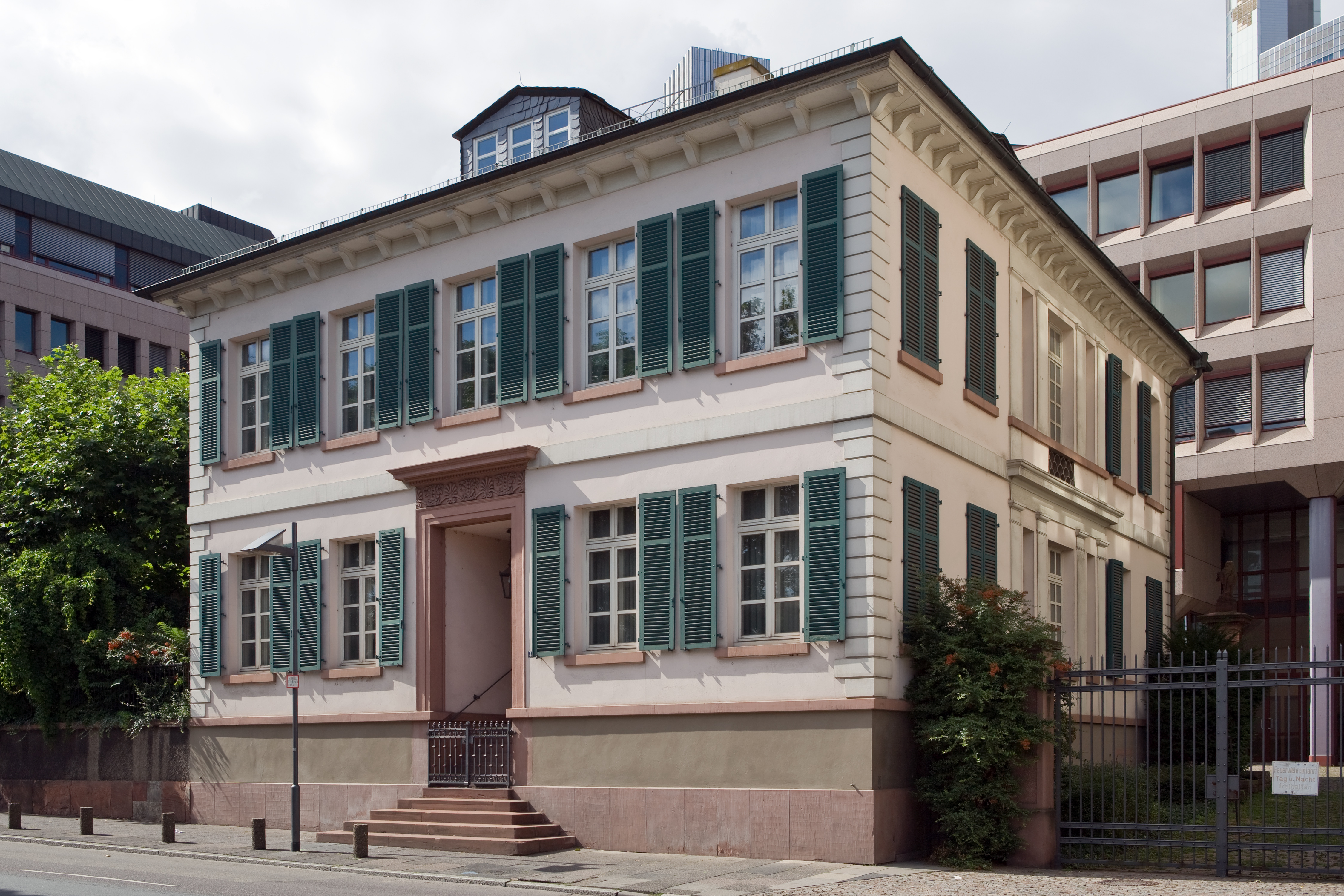 Frankfurt on the Main: Untermainkai (Lower Main Quay) 4 as seen from the southeast